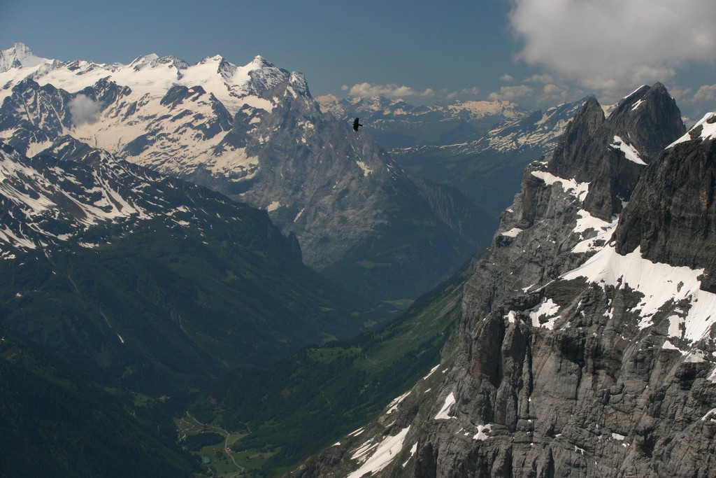 The great ALPS, captured from Titlis